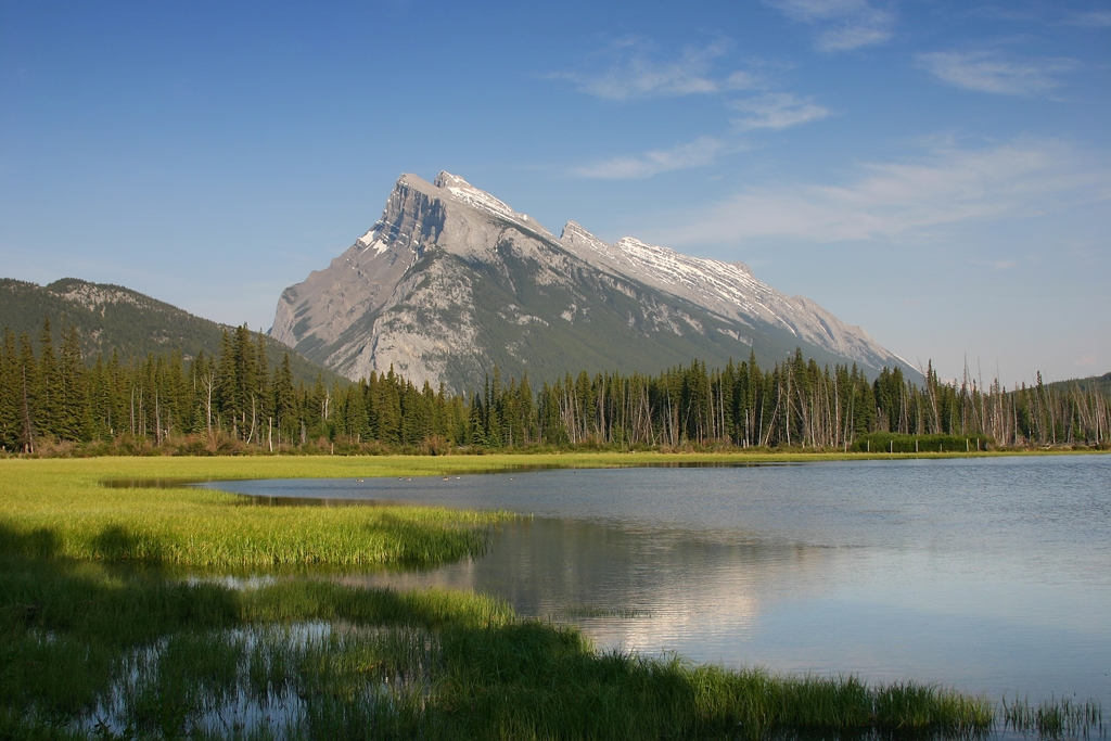 Author: Horst Gernhardt Source: Horst Gernhardt Description: Mount Rundle seen from the Vermillion Lakes, Banff NP, Canada